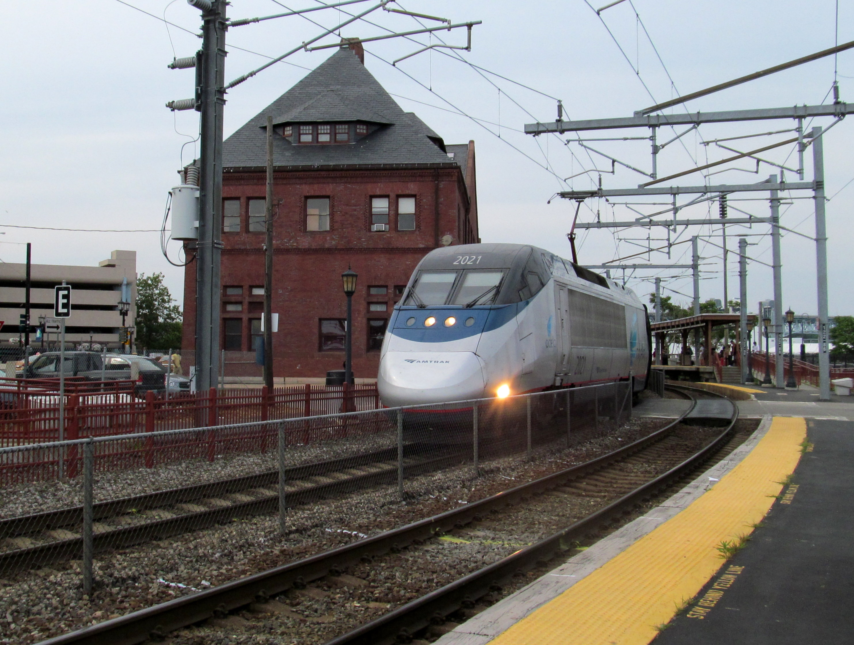 A southbound Acela Express train passes New London Union Station on a Friday afternoon with ditch lights flashing